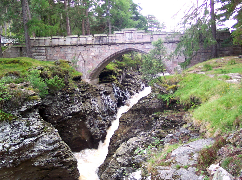 Linn of Dee, near Braemar. Taken by myself in 2004. Public domain.